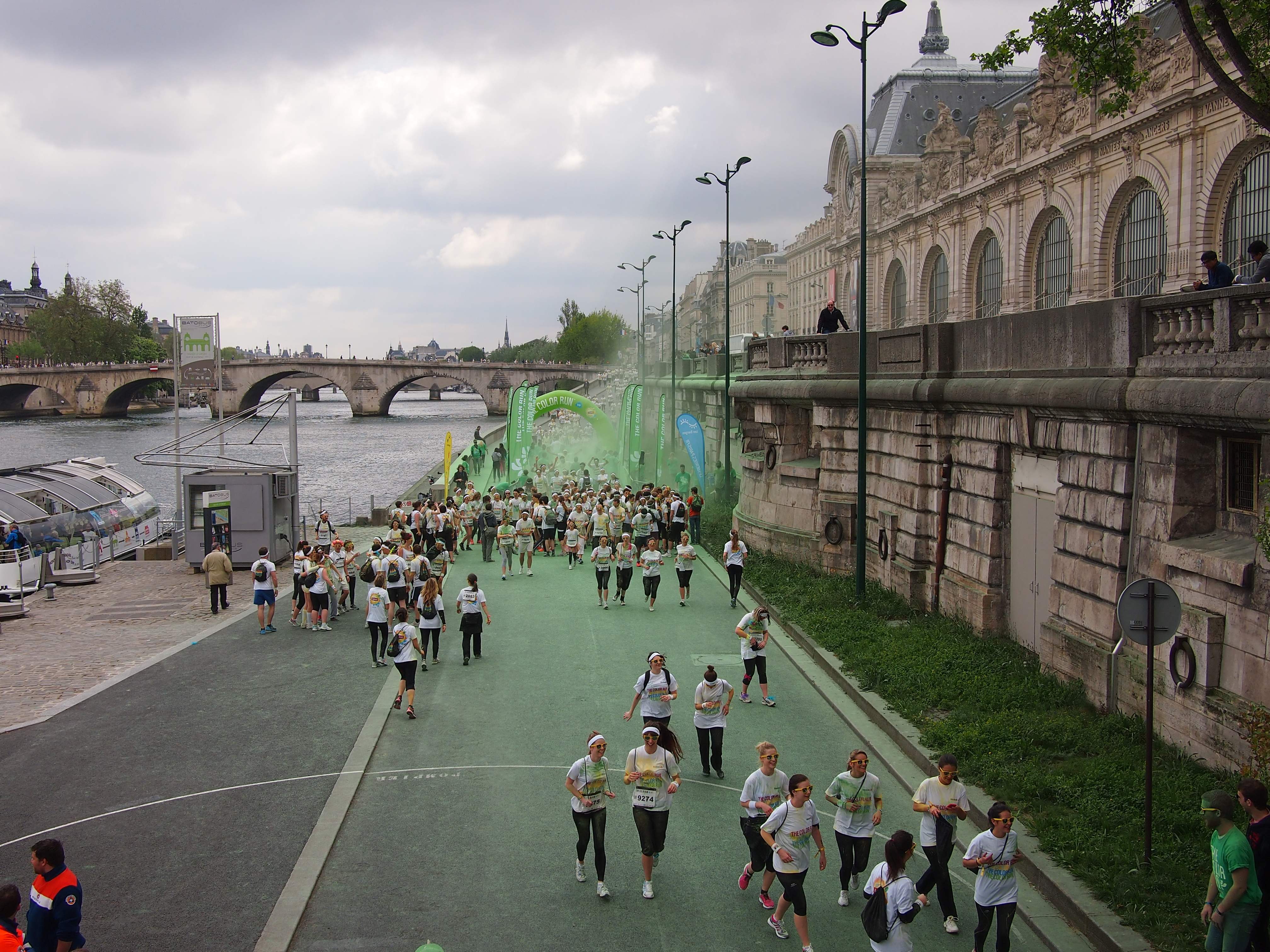 The green station on the 2014 Paris Color Run, located between the Musée d'Orsay and the Seine river